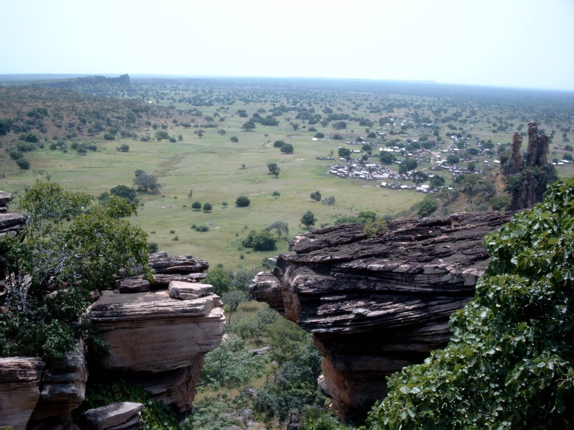 View from adjacent sandstone mountain on Tambarga, Kompienga province, Burkina Faso.